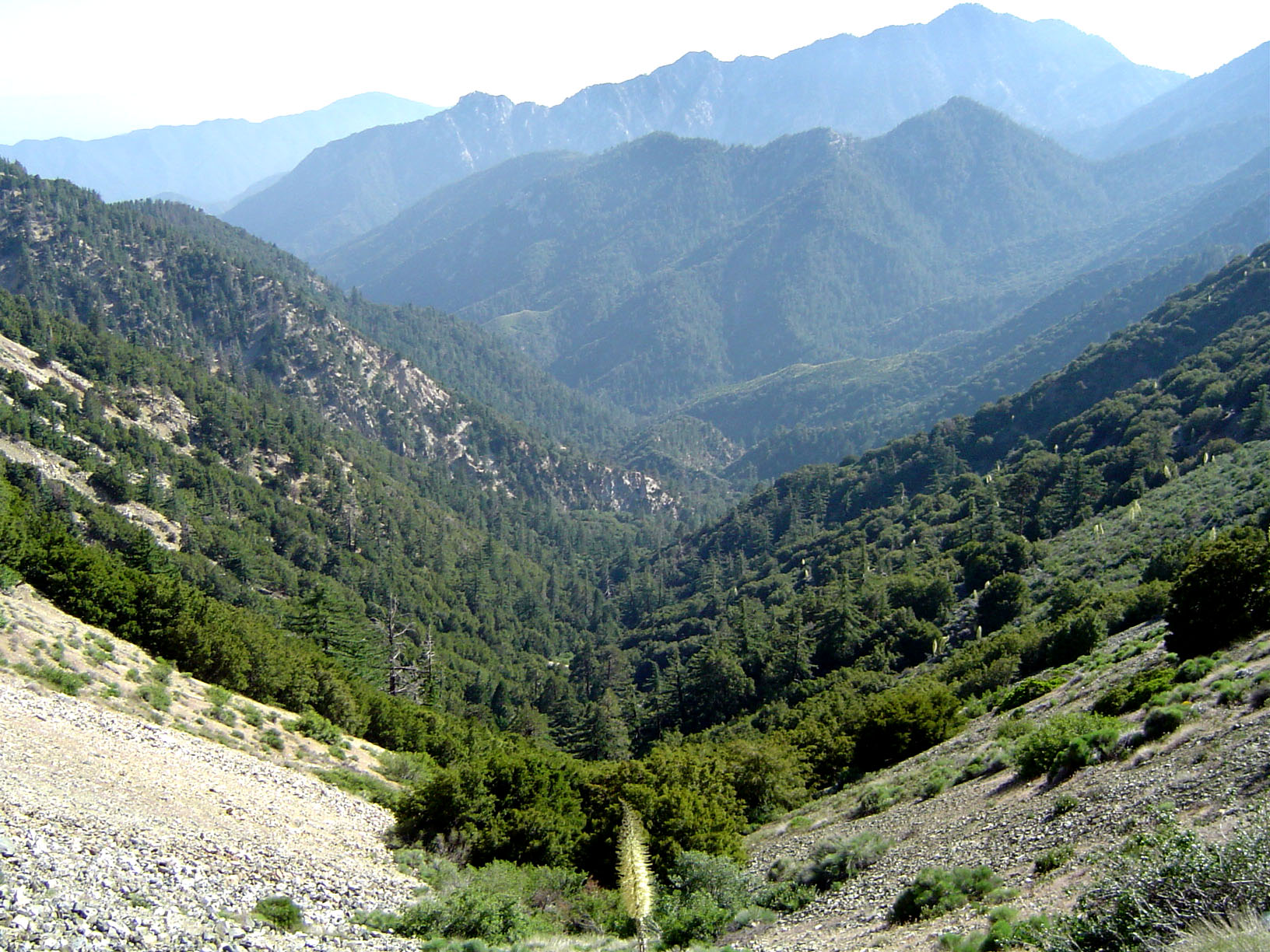 The San Gabriel Mountains, part of the Angeles National Forest in Los Angeles County, California. Twin Peaks (7761 feet) is in the middle distance on the right. Monrovia Peak (5409 feet) is in the far distance on the right. Taken from Islip Saddle (6600 feet) looking southwest down Bear Creek, a tributary of the San Gabriel River that lies within the San Gabriel Wilderness.